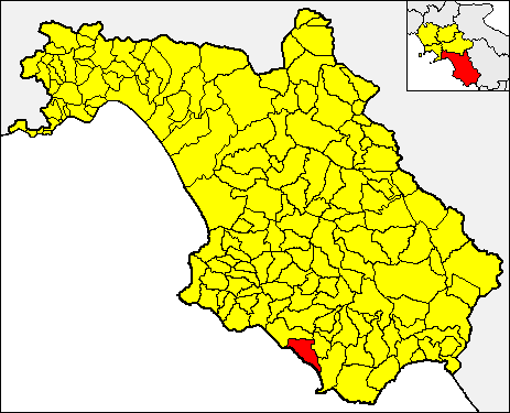 Locator map of the municipality of Pisciotta (red) within the Province of Salerno